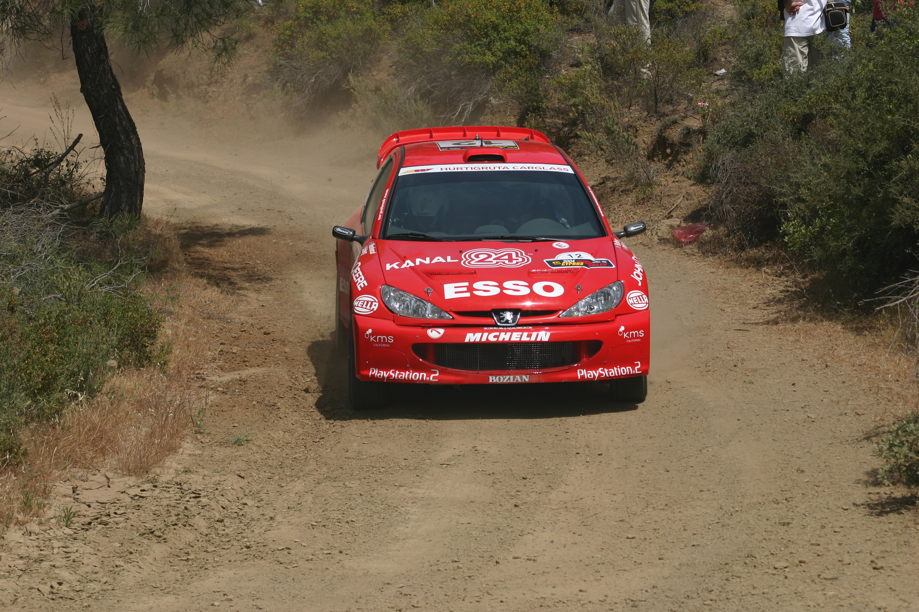 Henning Solberg driving hi Peugeot 206 WRC during the 2004 Cyprus Rally.